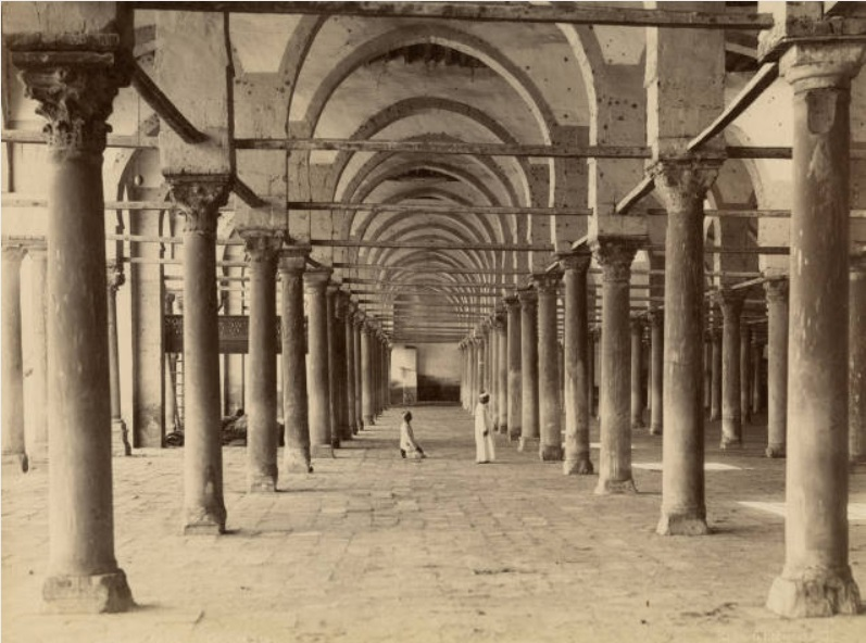 Photograph inside the Mosque of 'Amr ibn al-'As